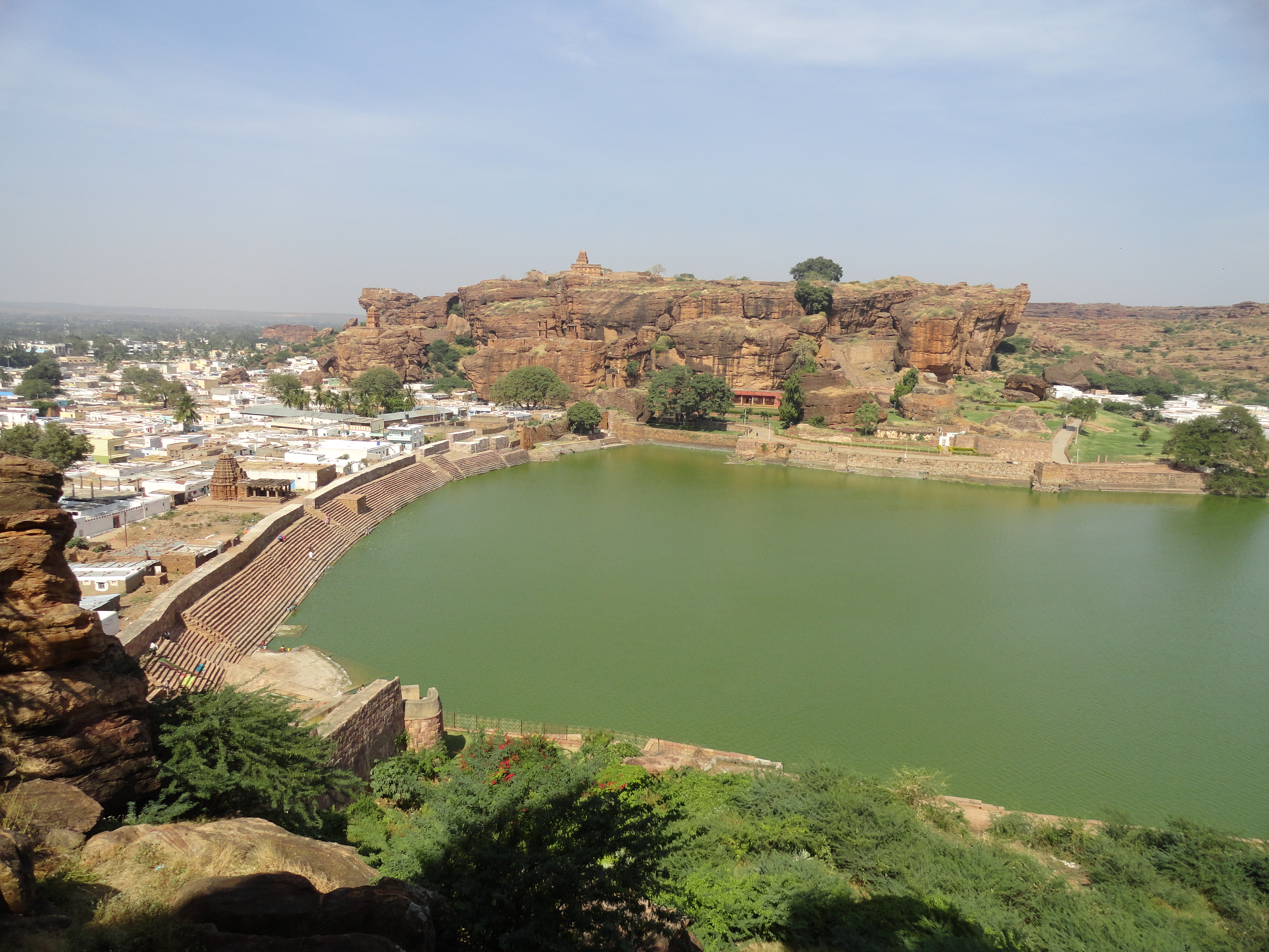 Scenic view of Badami town from Badami caves